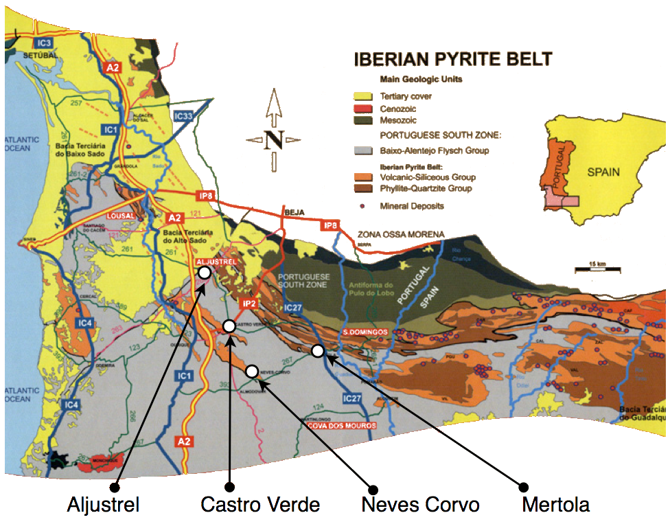 IPB Zone